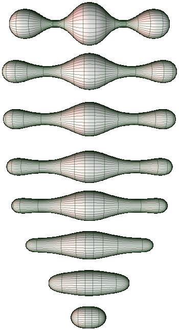 Visualization of 2D Ricci flow on a surface of revolution